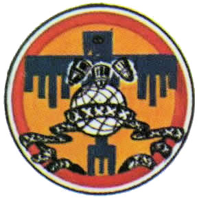 Emblem of the 19th tactical reconnasance squadron